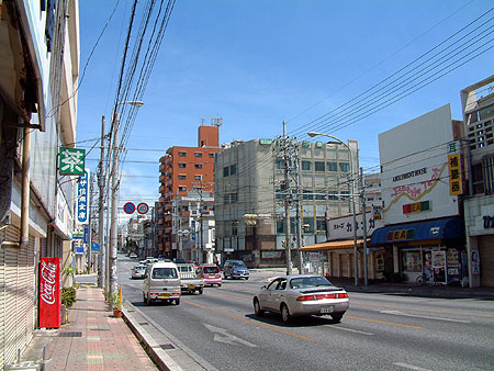 Koza Crossroads